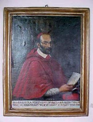 Gianfrancesco Gambara